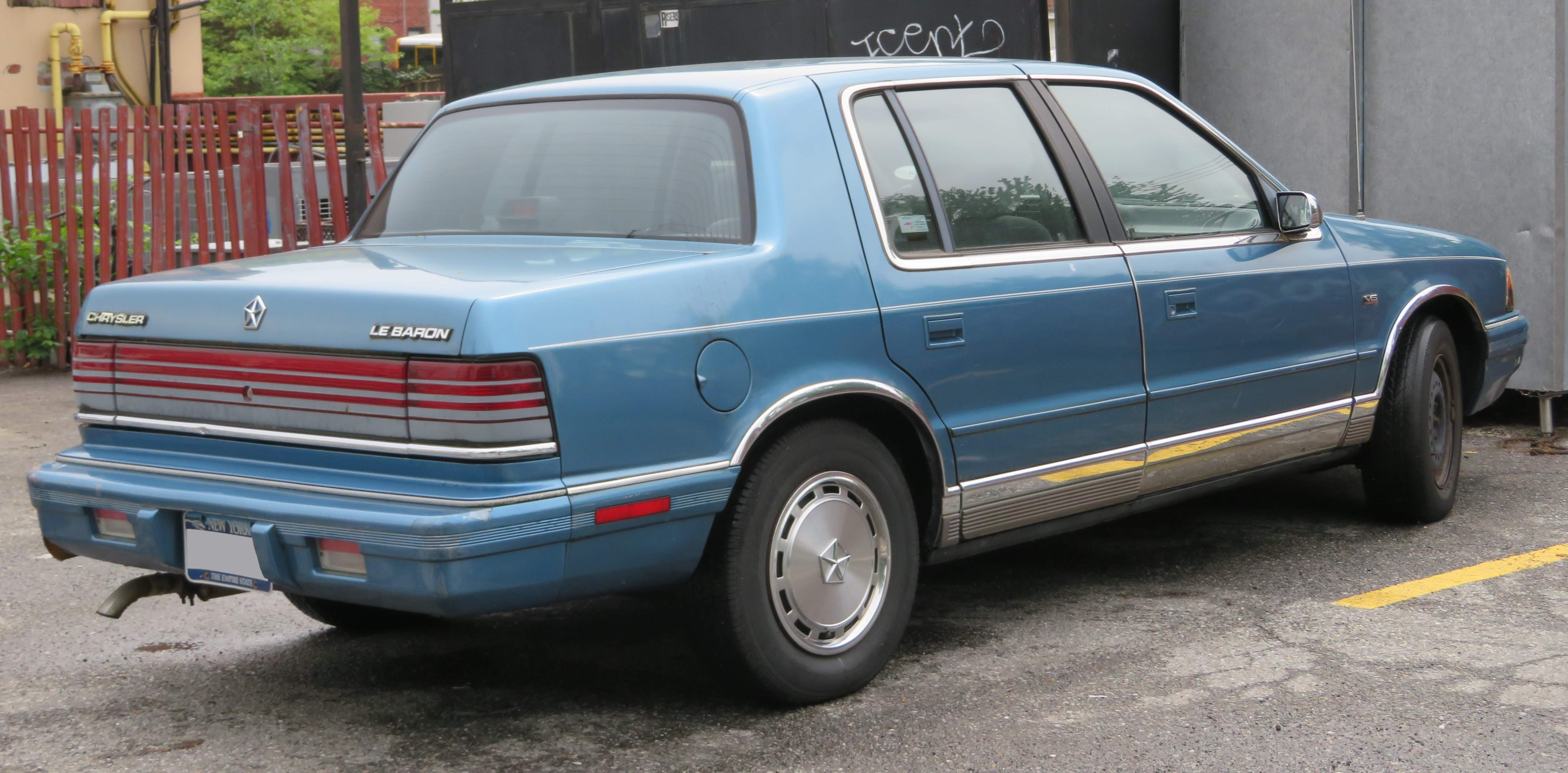 In Queens, New York